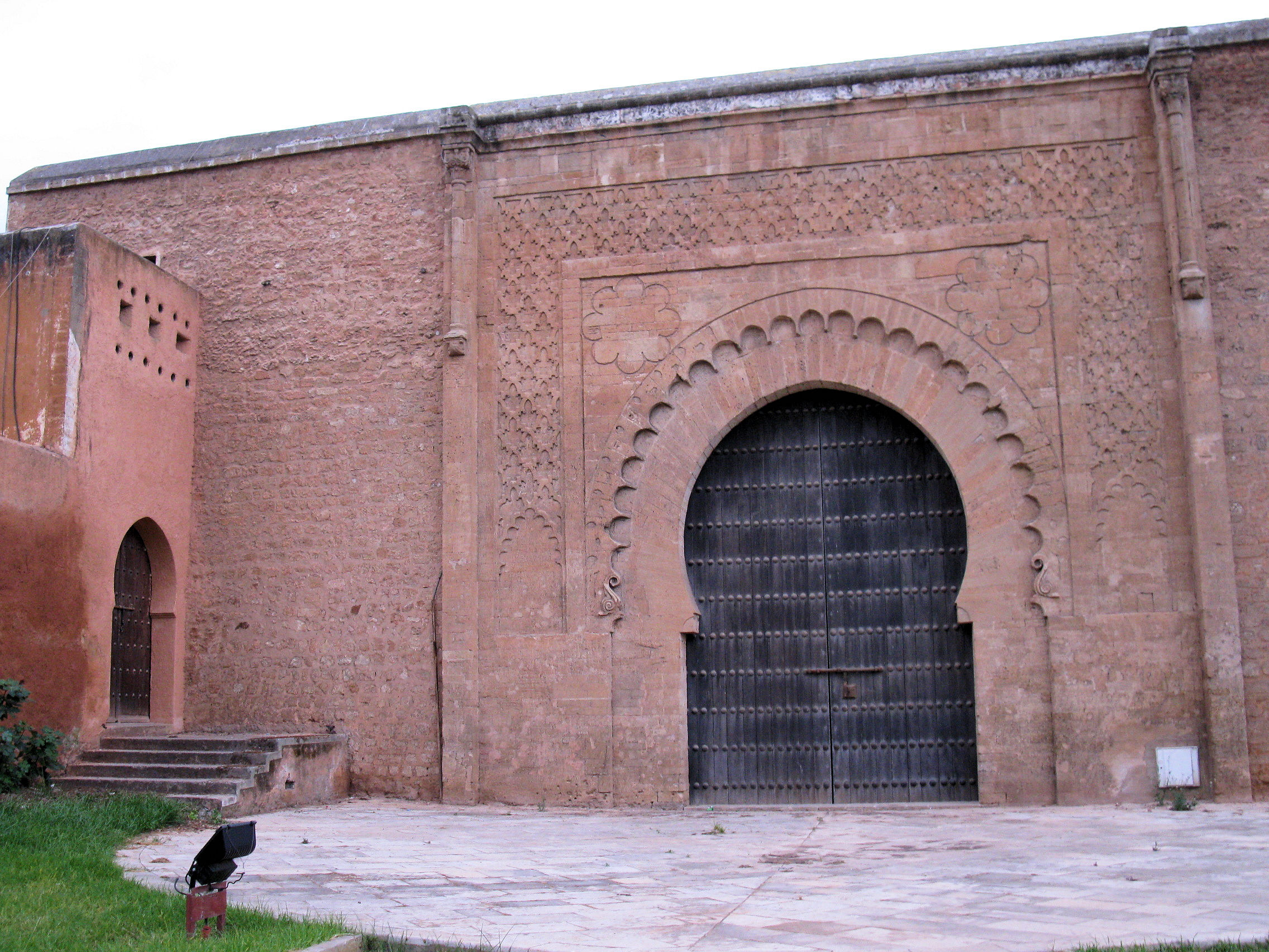 The Bab er-Rouah gate, a monumental Almohad gate in the western walls of Rabat, has decoration on both its exterior facade (seen from outside the city walls) and over its inner facade (facing east, inside the walls). The inner facade's decoration is somewhat less detailed.